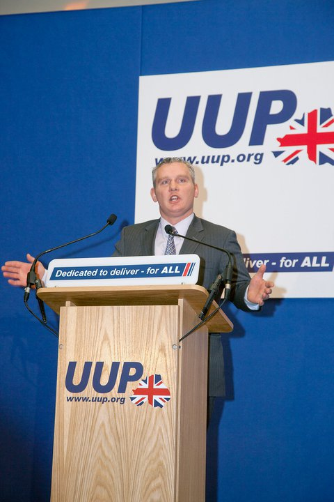 John McCallister, MLA for South Down Northern Ireland. This photo was taken at the Ulster Unionist Party conference at the Ramada Hotel Belfast.